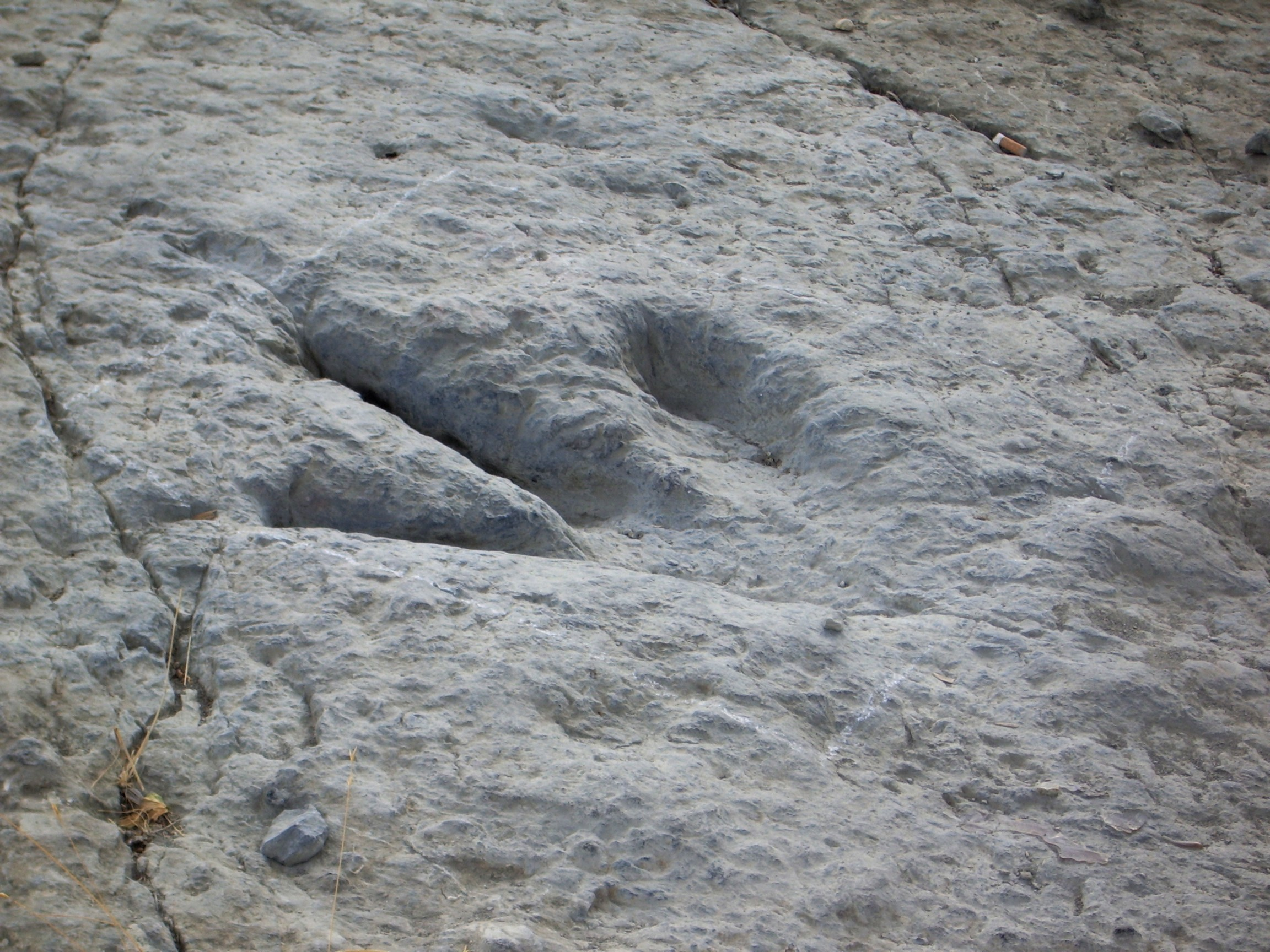 Detail of a single Dinosaur footprint found in Valdecevillo site, near Enciso, La Rioja, Spain. This is the third footprint on a track of a Theropoda (carnivorous Dinosaur).